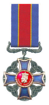 Order of Daniel of Galicia